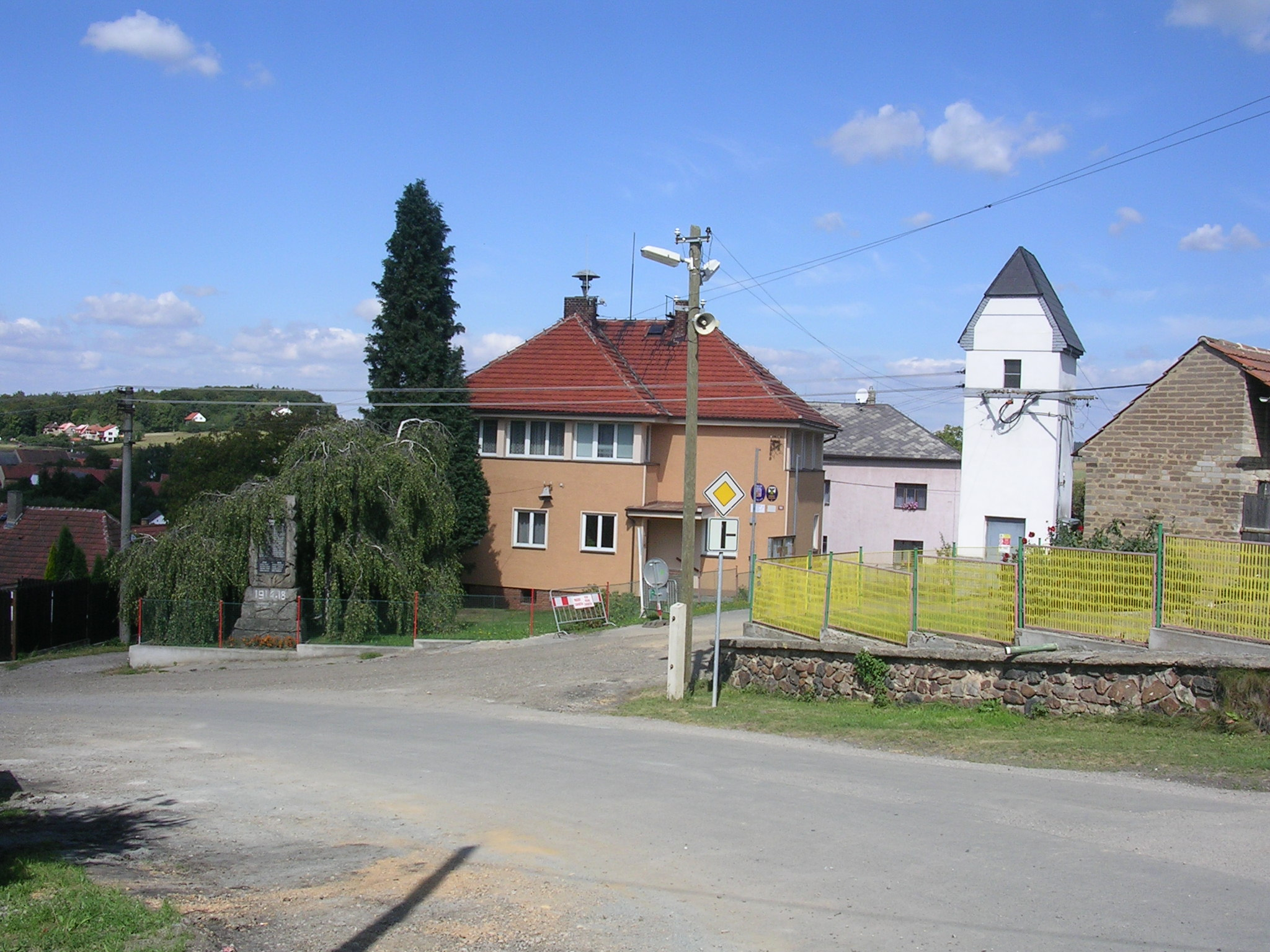 Kublov, Beroun District, Central Bohemian Region, the Czech Republic. A municipal office. - Google Maps - Google Earth